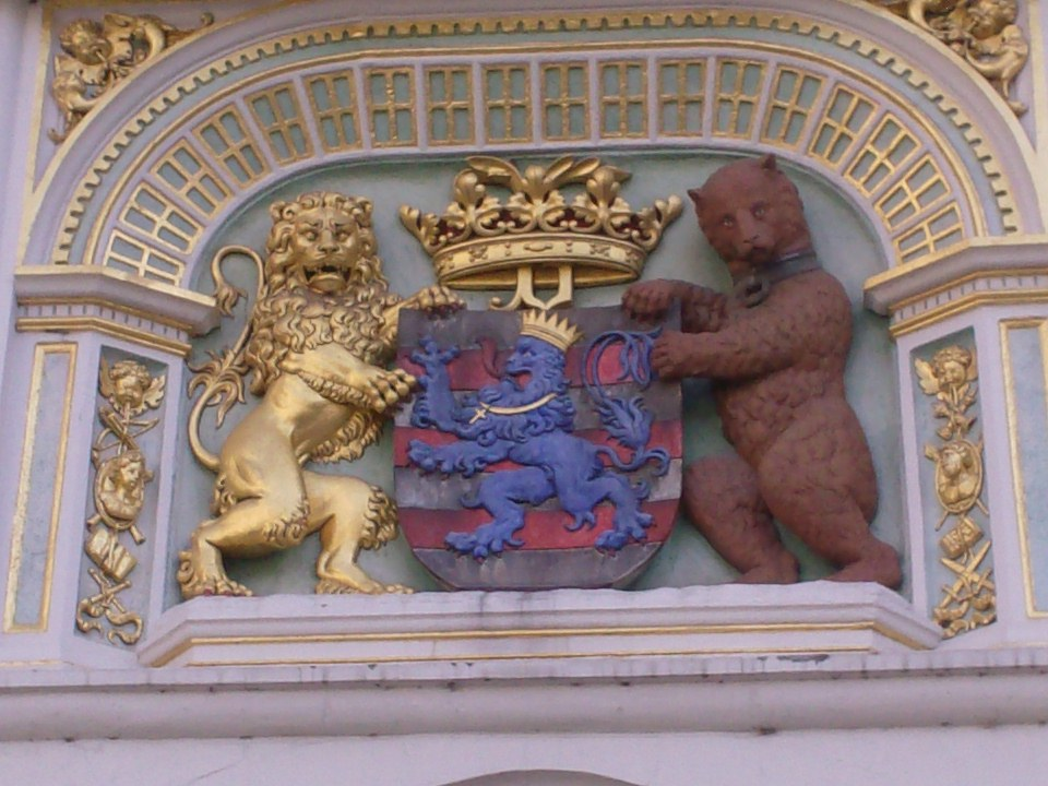 Coat of arms of Bruges (Burg Square Bruges)